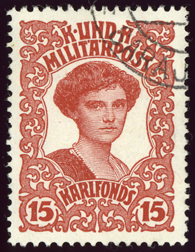 Stamp of Bosnia and Herzegovina, Charity issue July 1918, 15 heller, Empress Zita